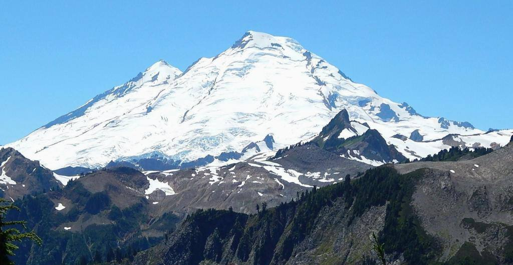 Mount Baker showing Park Glacier. Seen from Artist Point.